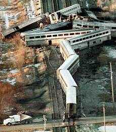 Wreckage of the Amtrak train #59 grade crossing accident at Bourbonnais, Illinois, on March 15, 1999. Eleven passengers on this train died and 122 persons were injured when the train struck a tractor semitrailer.